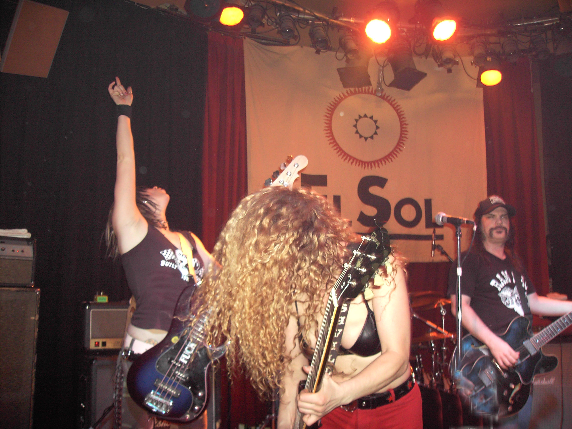 Nashville Pussy playing live on Madrid's Sala Sol in 2005; L to R: Karen Cuda, Ruyter Suys, Blaine Cartwright